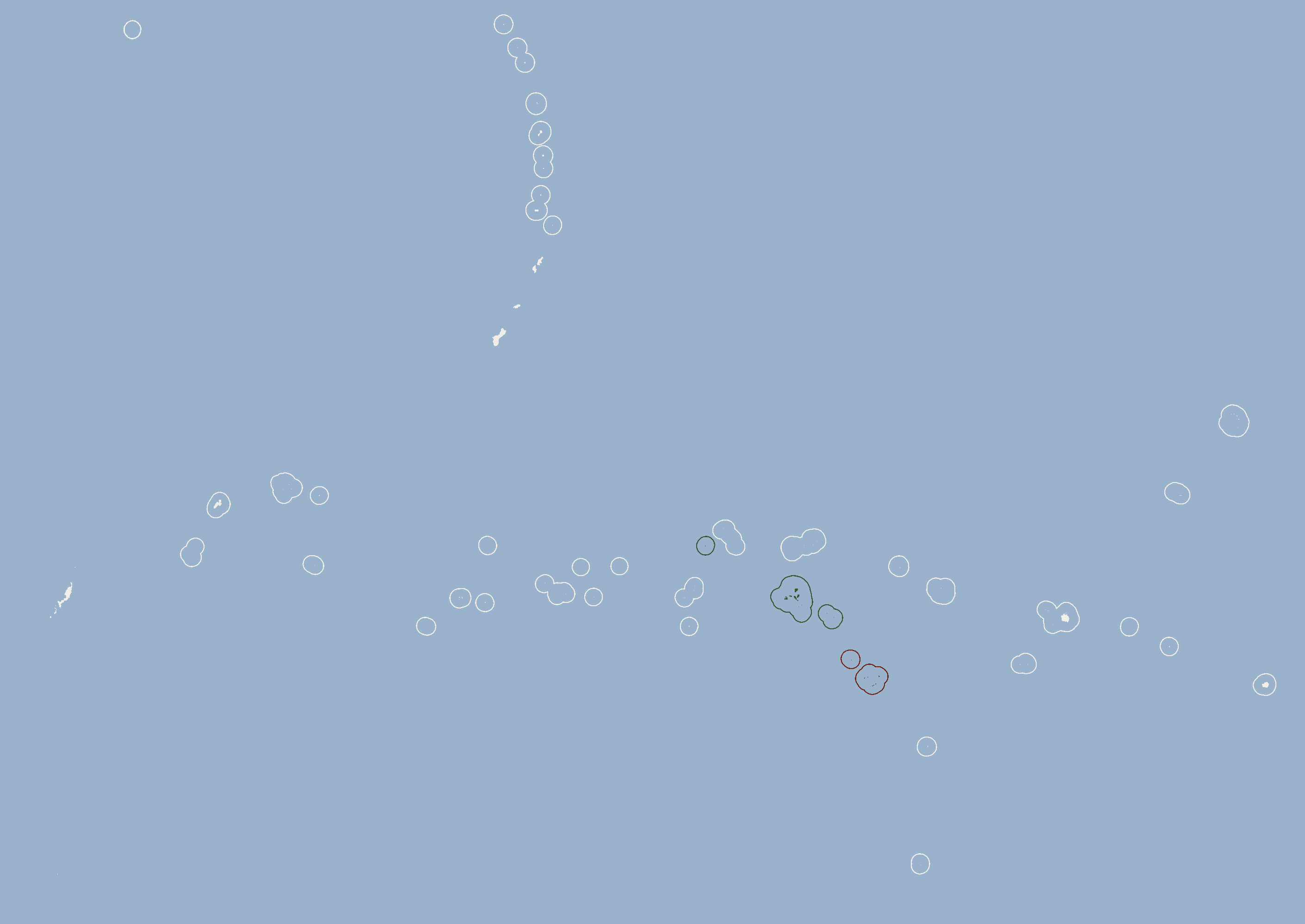 Geographical distribution of Pteropus pelagicus according to Buden & Al., 2013